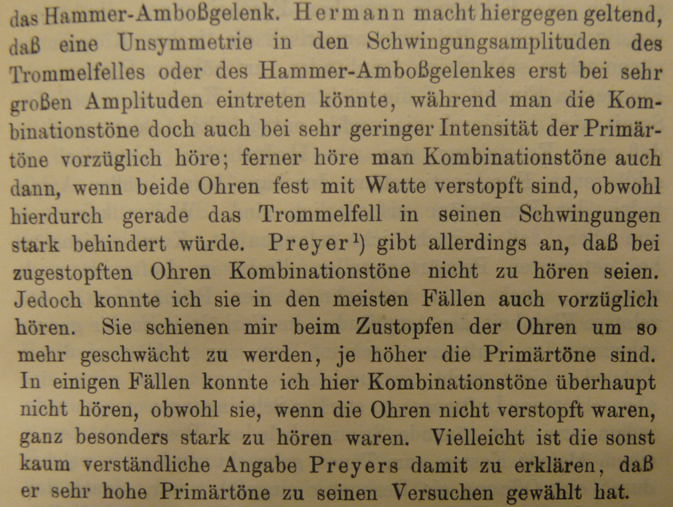 German text “sentence spacing” example—1/3 em word spacing, single em-quad between sentences. From 1907 journal article.